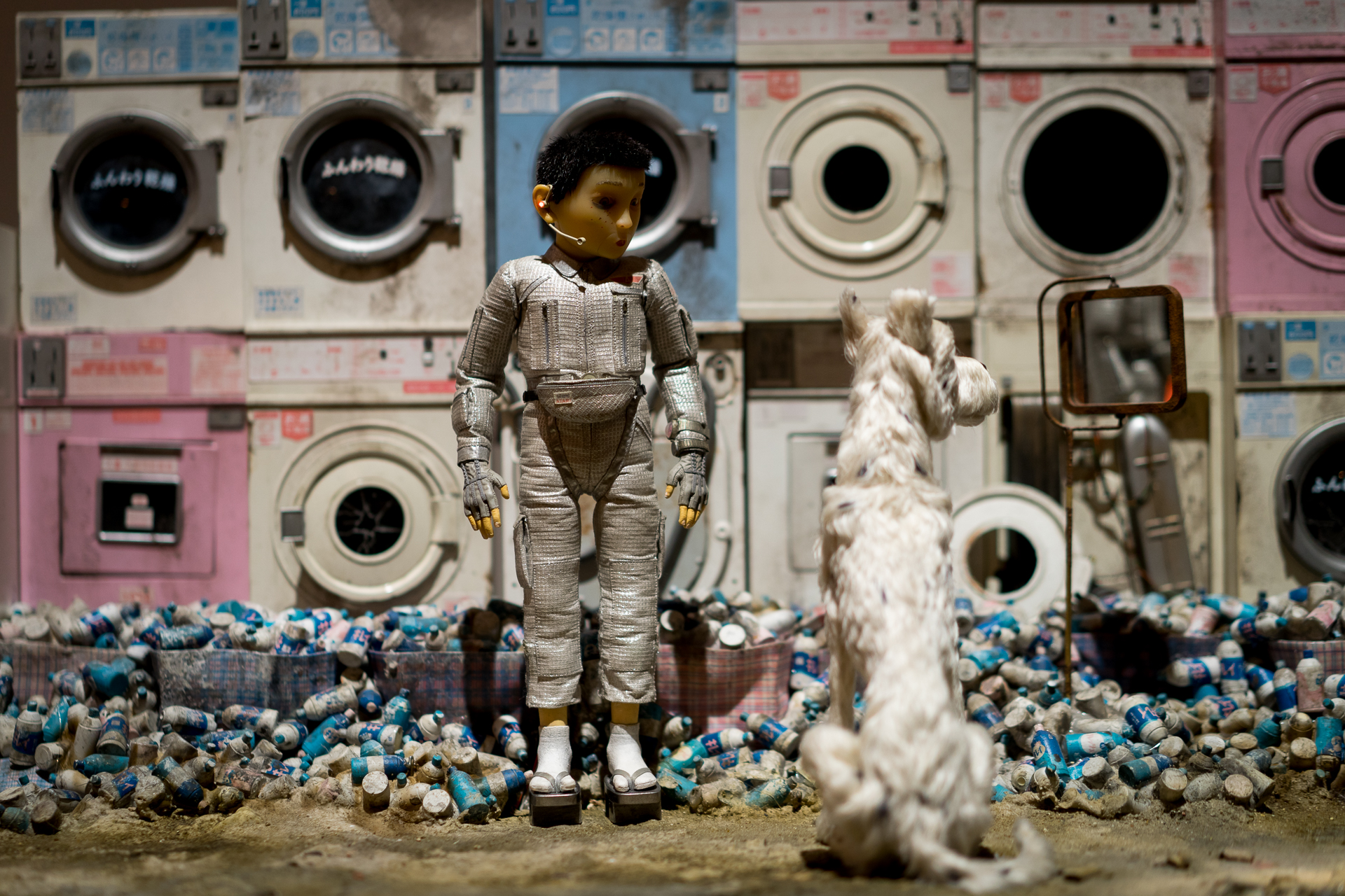 Sets from the film Isle of Dogs